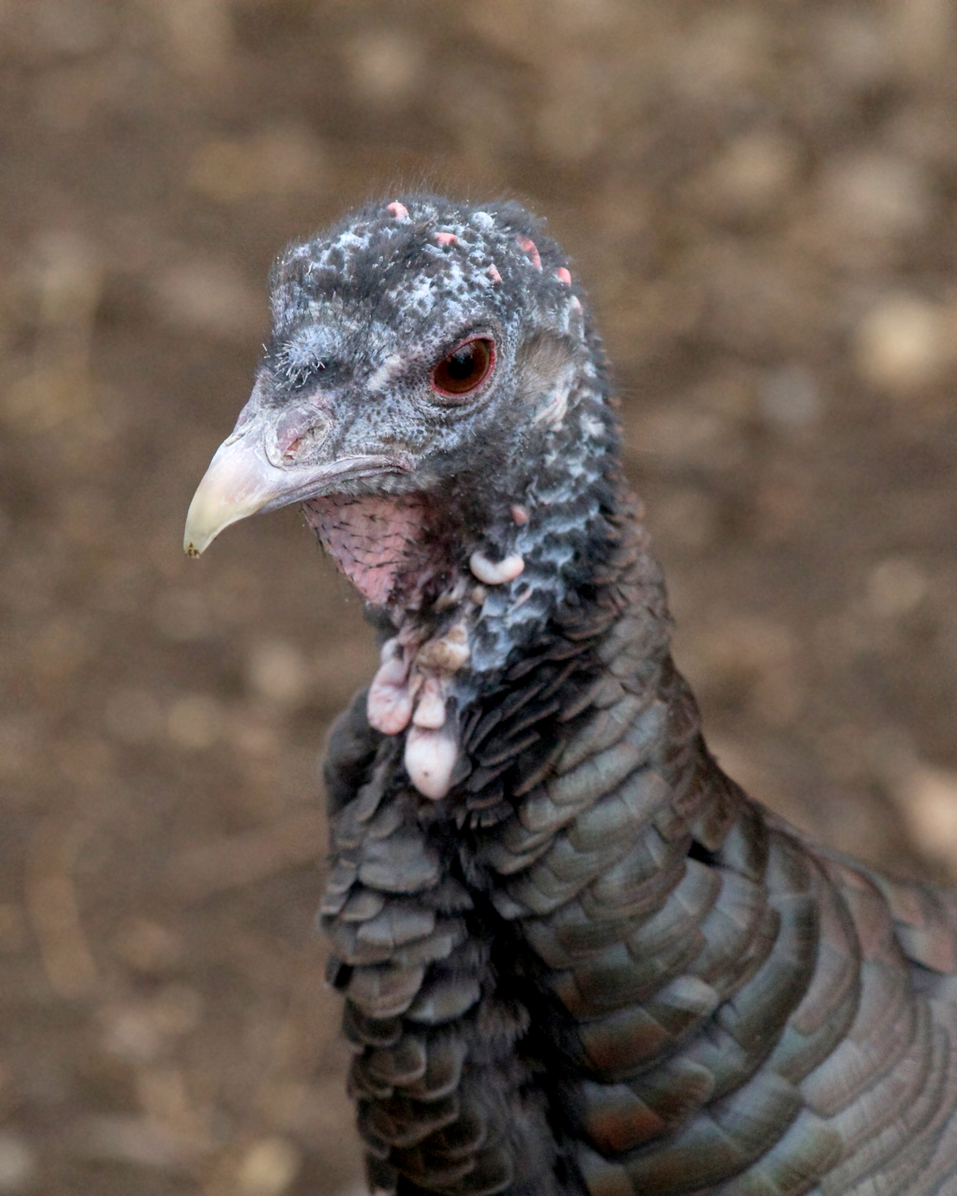 Turkey hen - taken at the Cincinnati Zoo.